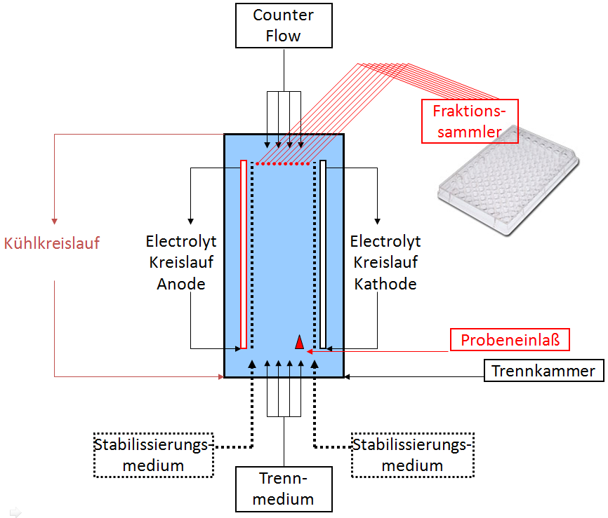 Compartments of a Free Flow Electrophoresis System